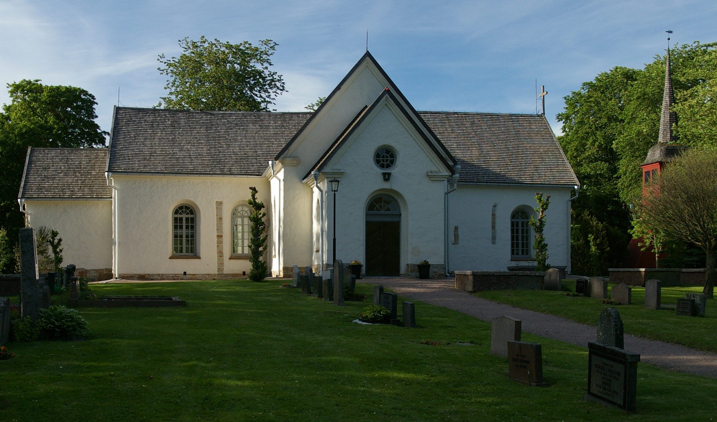 Åsle kyrka (Swedish:Church of Åsle) in Västergötland, Sweden